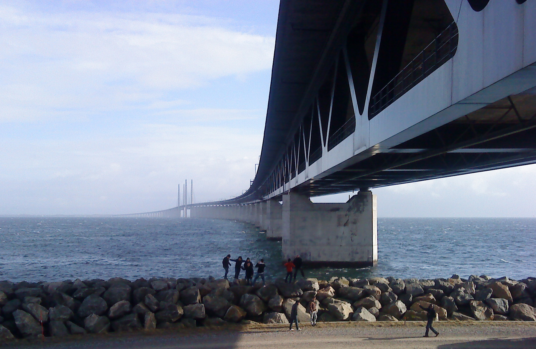 The Oresund bridge seen from Lernacken, Sweden.